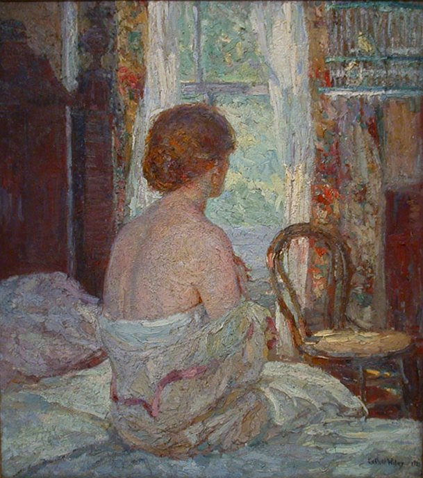 Morning by American painter Catherine Wiley (1879–1958)